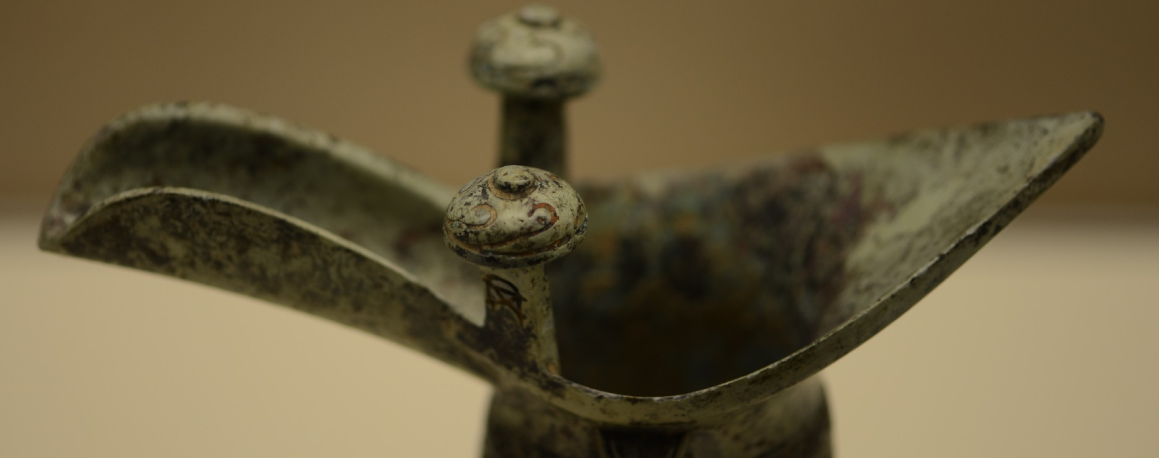 The typical mushroom-shaped protrusion on the rim of the ancient chinese bronze vessel type jue. Anyang phase of Shang-Dynasty (1300-1050 BC) Museum für Asiatische Kunst: Berlin